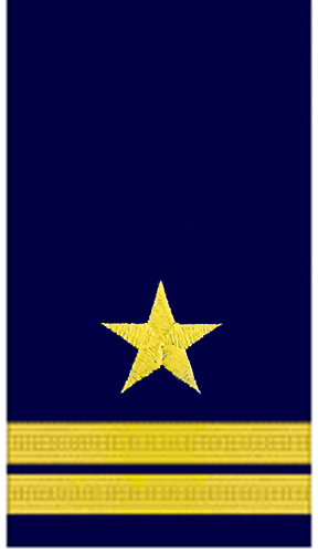 Image made to represent the sleeve insignia of a Oberleutnant zur See of the Kriegsmarine. Made with Photoshop.